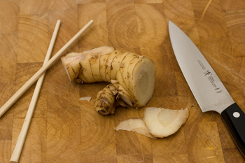 Fresh galangal root as it would appear when purchased. It is very hard and requires care and a sharp knife to cut. The inside area exposed to air quickly browns, as may be discerned in photo. I took this photograph, and I own it. I hereby release it into the public domain with no restrictions of any kind.